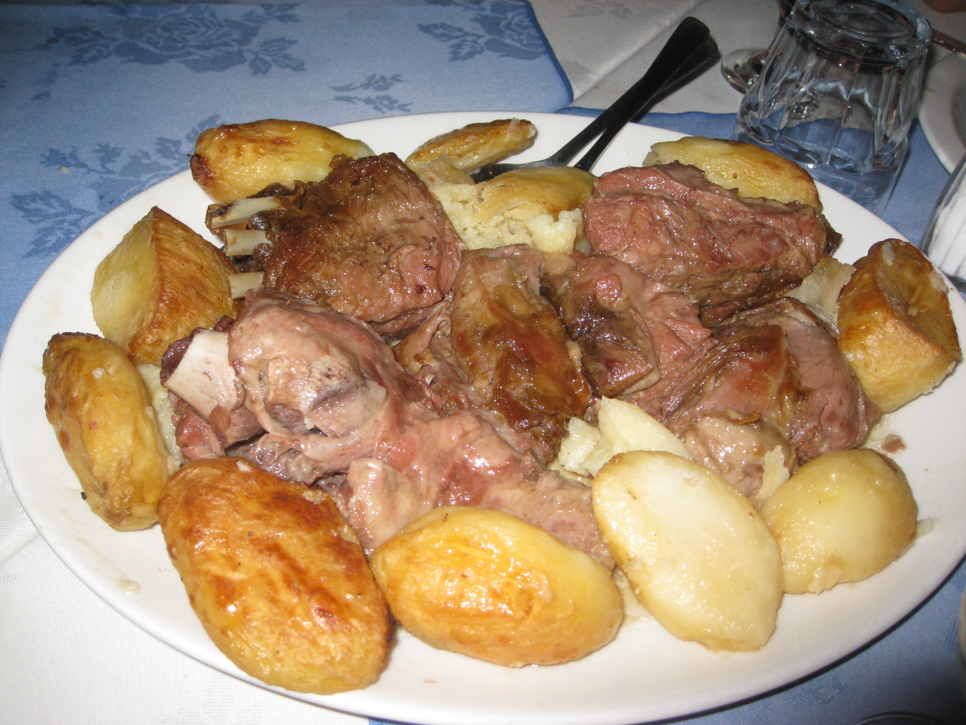 Portion of Kleftiko in Cyprys (Limassol)